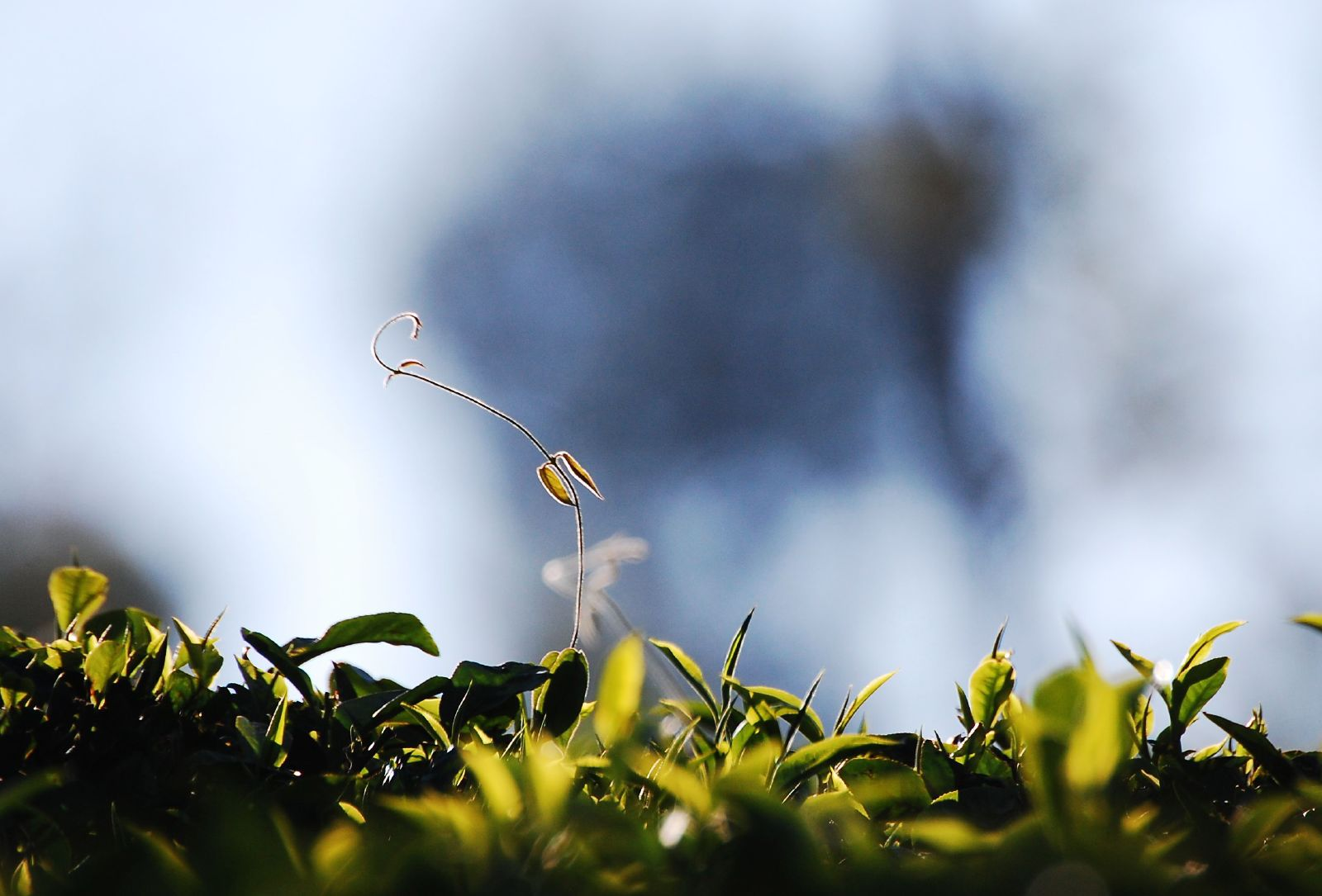 Tea leaves from Valparai Kerala India